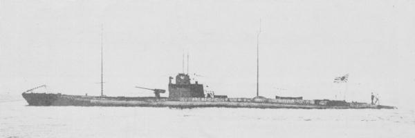 Japanese submarine Maru-7, ex-UB143.